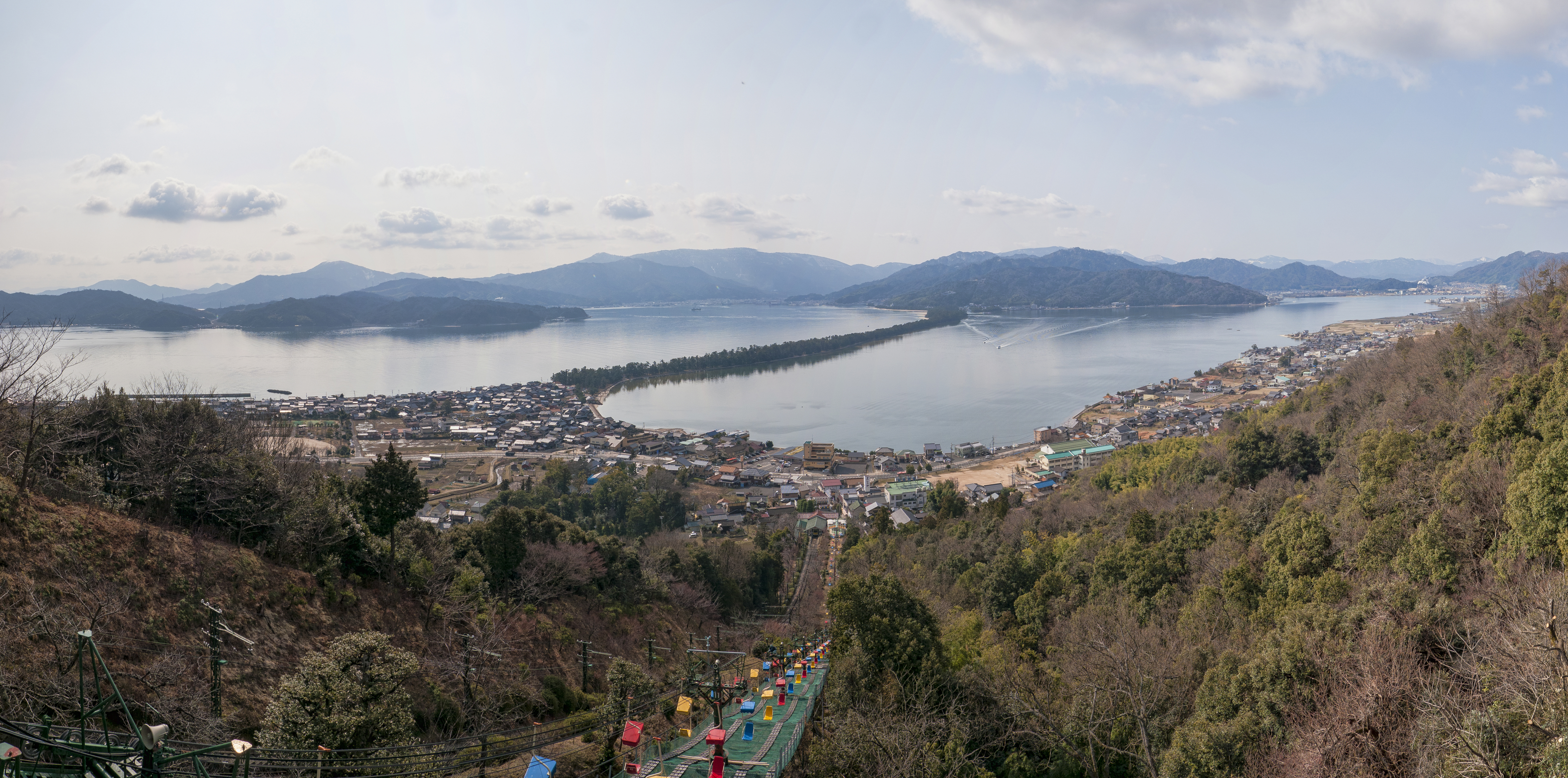 Amanohashidate